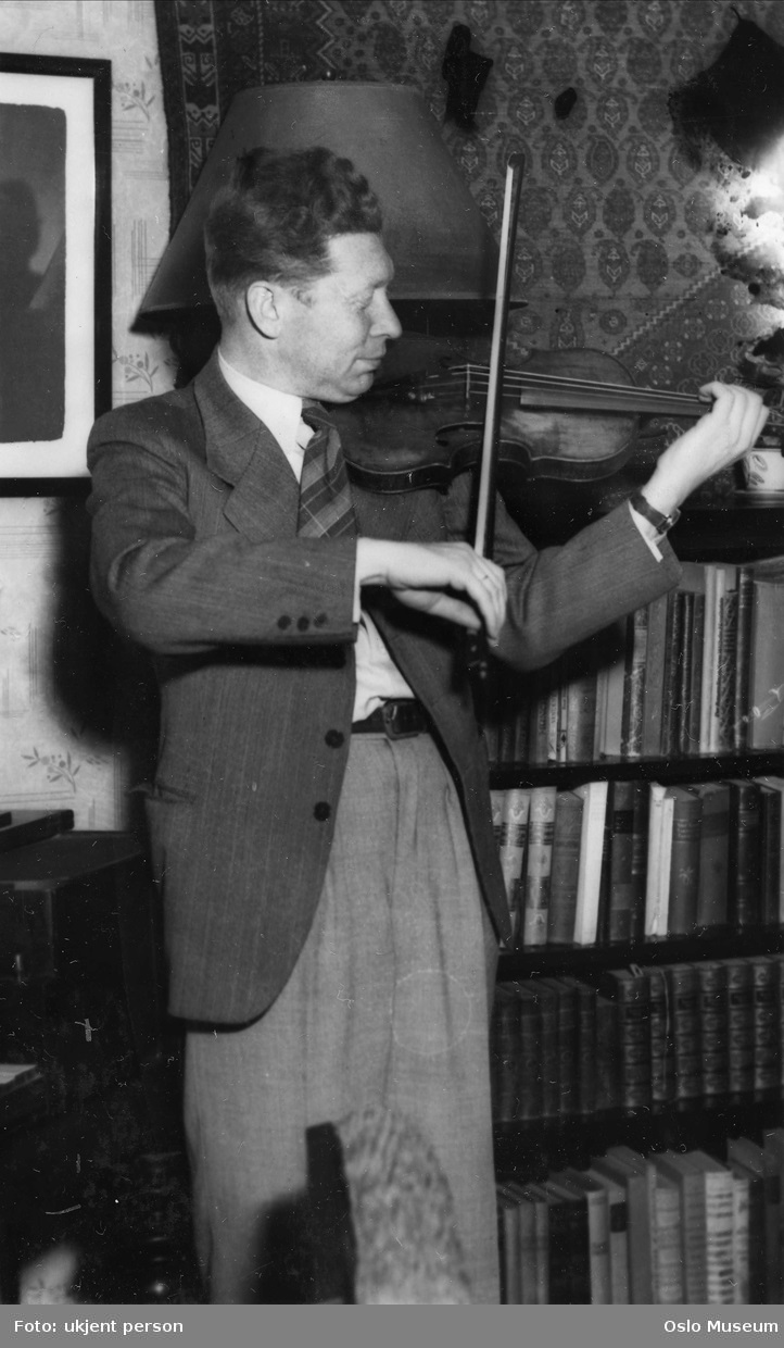 German-Norwegian violinist Ernst Glaser (1904–1979), ca. 1935